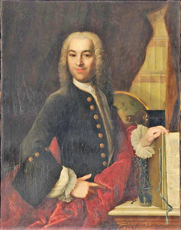 Portrait of Johannes Gessner (1709-1790)